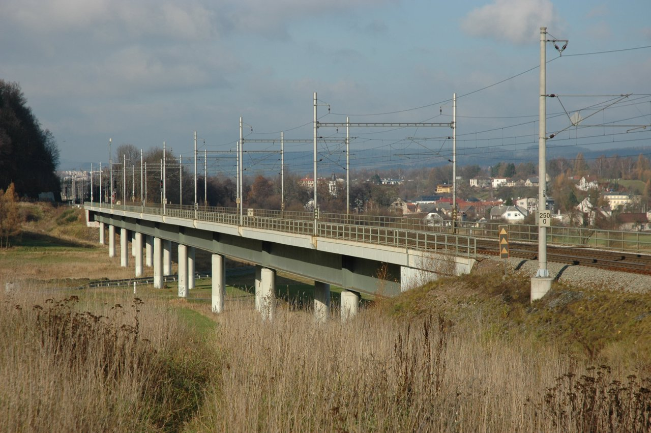 New railway bridge (in operation since 2003) between Dlouhá Třebová and Parník on the Praha - Česká Třebová main line